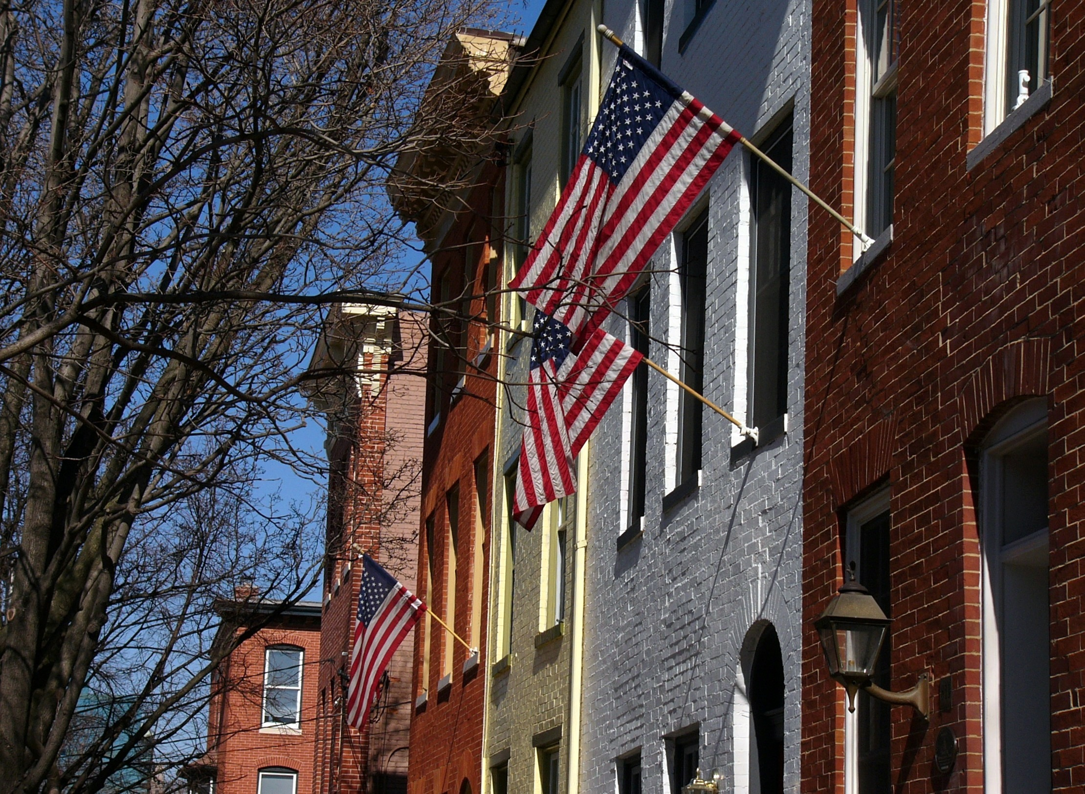 Federal Hill - William Street, Baltimore, USA.